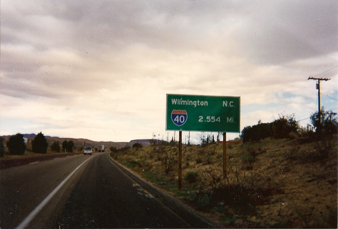 Start of Interstate 40 near Barstow, California. Picture taken in 1997.